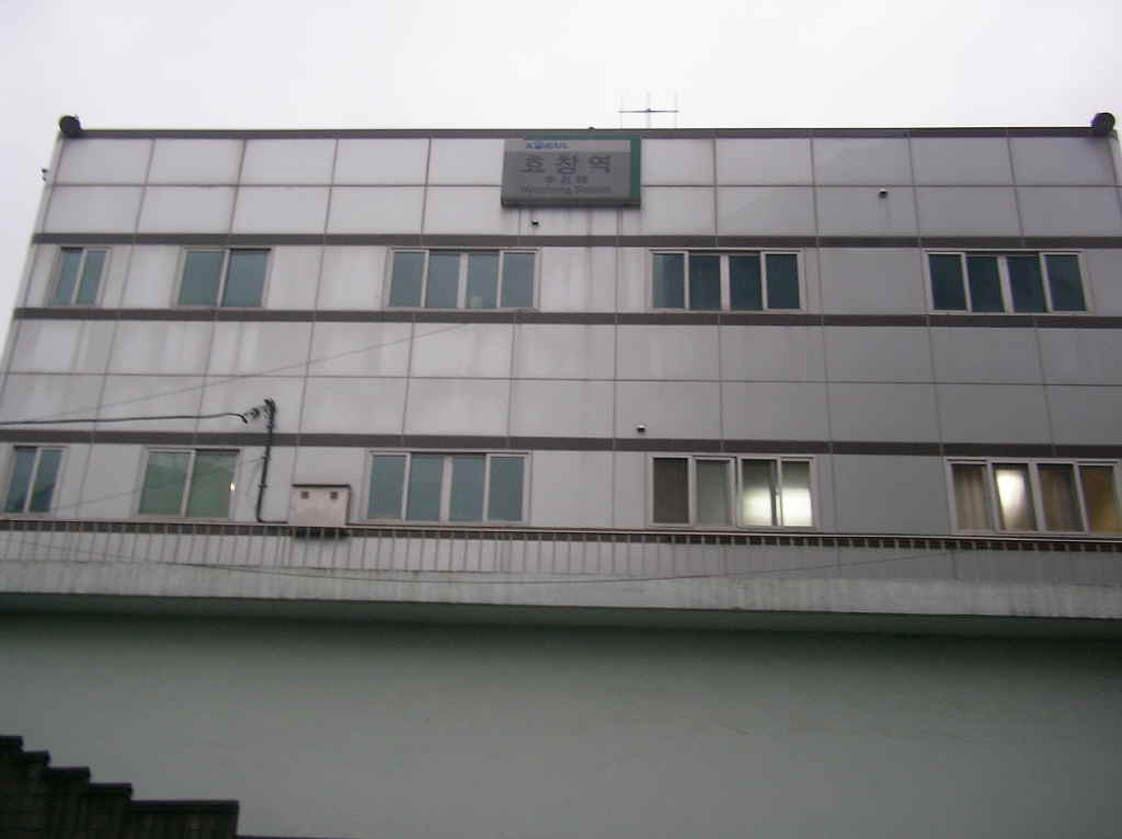 Hyochang Station